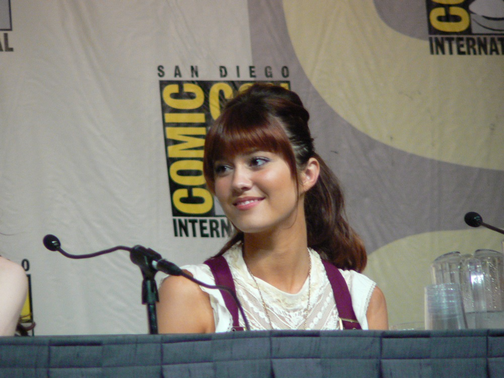 Actress Mary Elizabeth Winstead at 2006 Comic-Con International, promoting the film Grindhouse.